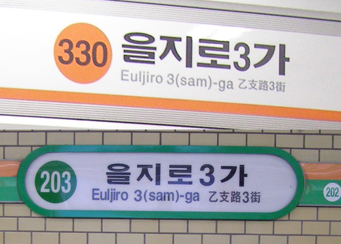 Euljiro 3-ga Station